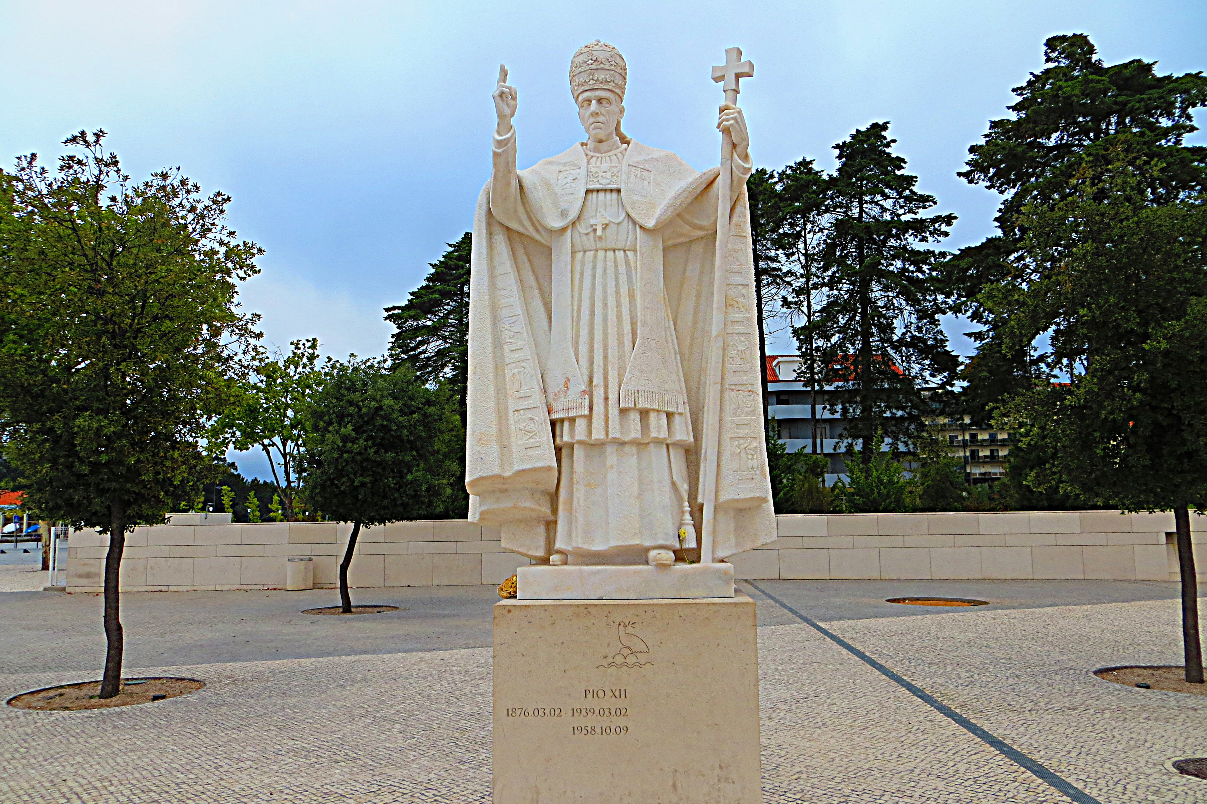 Statue of Pope Pius XII in the Sanctuary of Our Lady of Fatima, Portugal